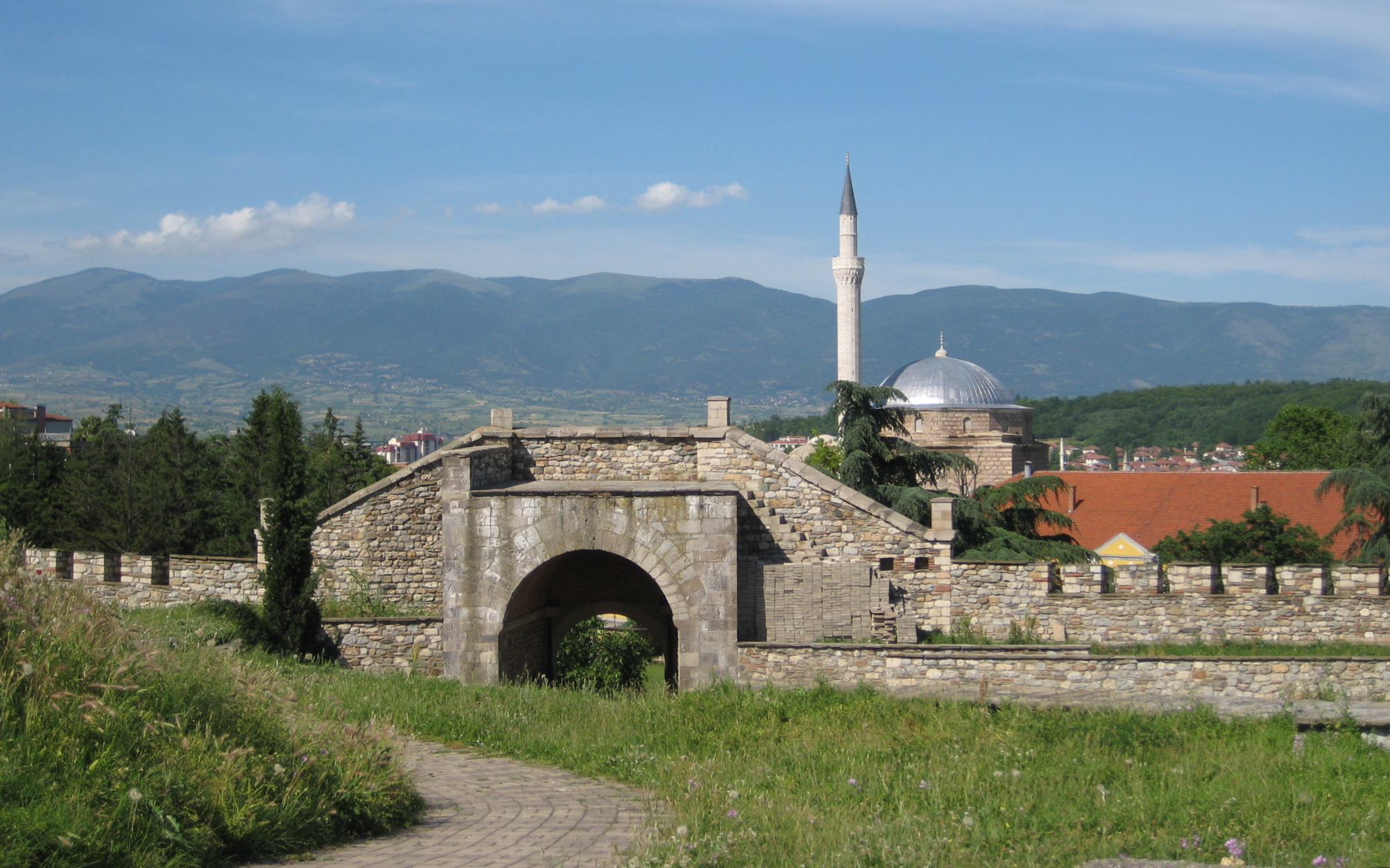 Mustapha Pasha Mosque seen from Kale Fortress, Skopje (Macedonia)